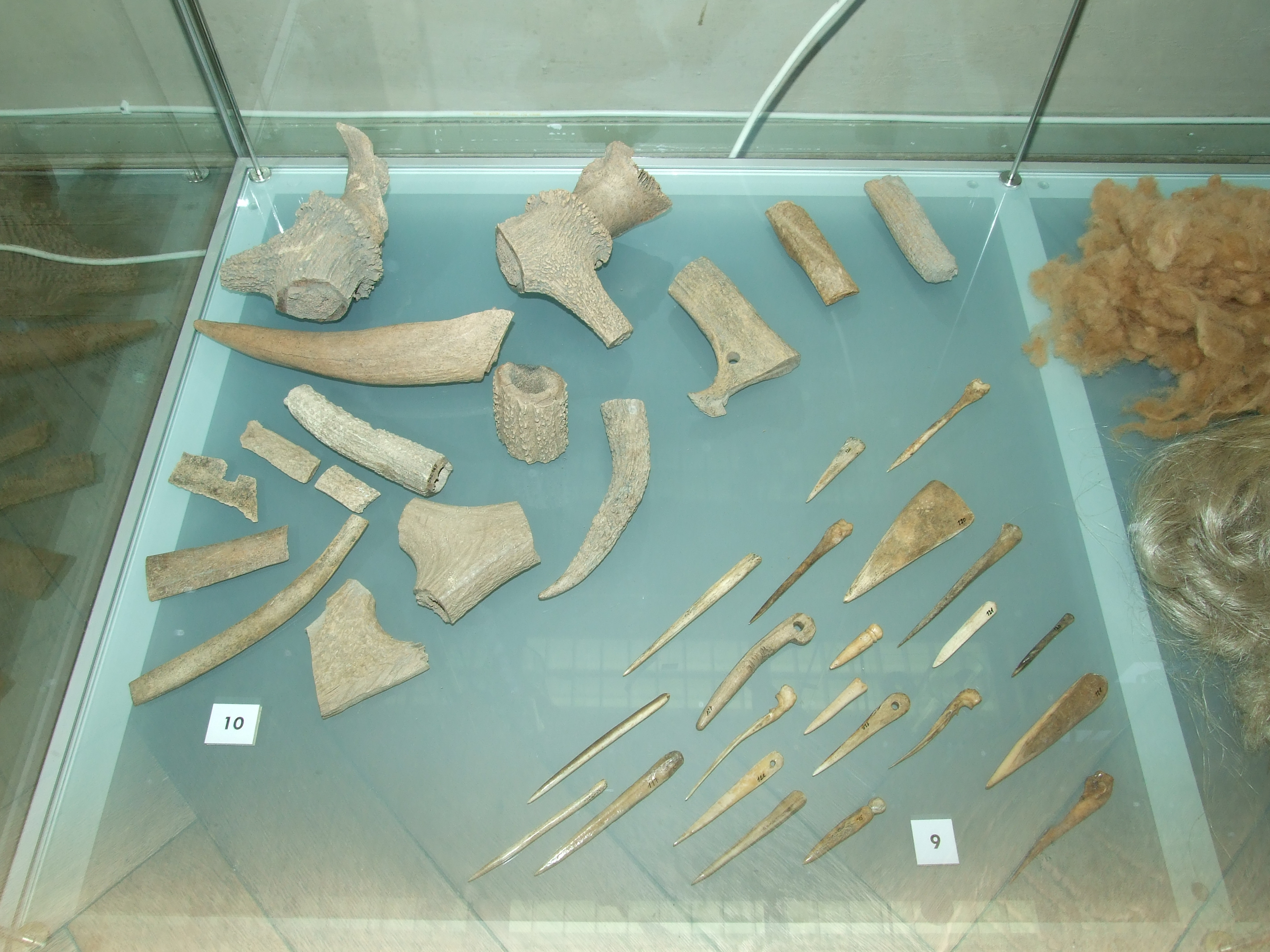 Prehistoric Times of Bohemia, Moravia and Slovakia, National Museum in Prague. Bone and antler working 9. Collection of bone artefacts (various localities; prehistory 10. Half-finished products and production waste from bone workshop (Libice nad Cidlinou; Early Middle Age)